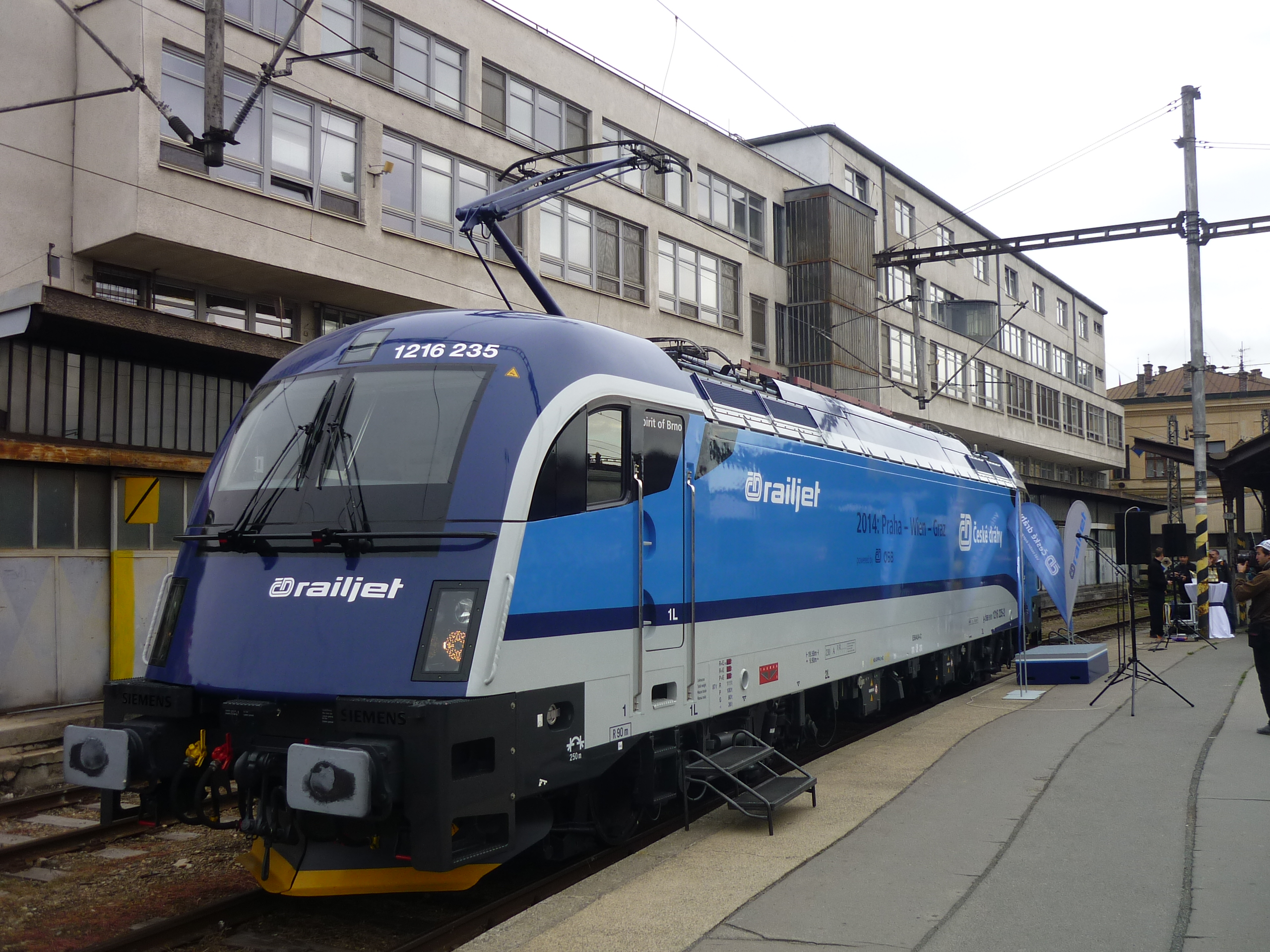 Locomotive ES64U4 of serie 1216 in colours of Czech railways in Brno at the main station